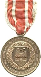 Hamburg Medal For Aid During The 5th-8th May 1842 Great Fire.